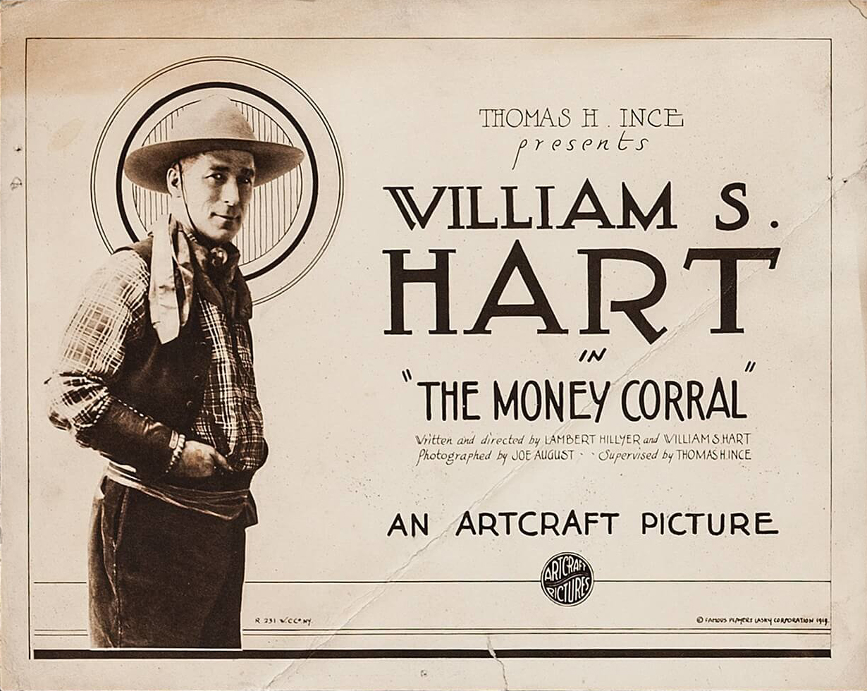 Title lobby card for the 1919 film The Money Corral